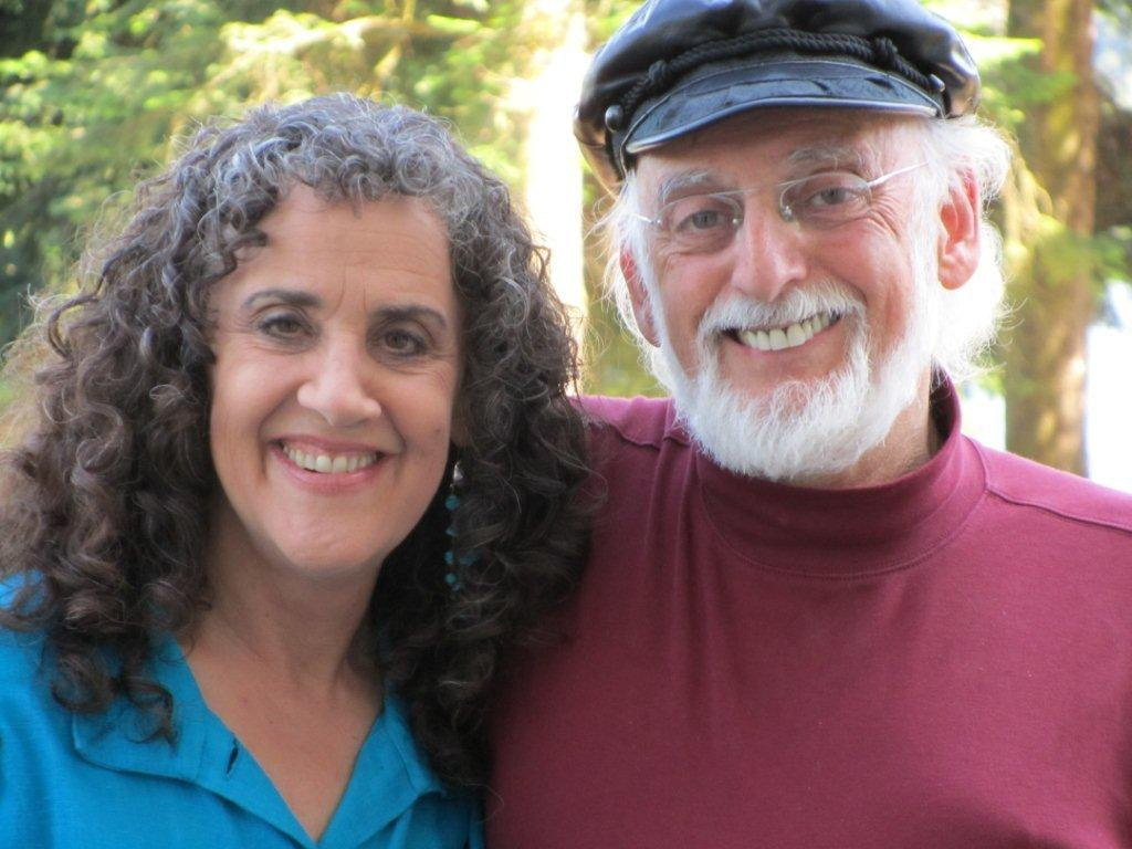 Dr. John Gottman with His Wife, Dr. Julie Gottman